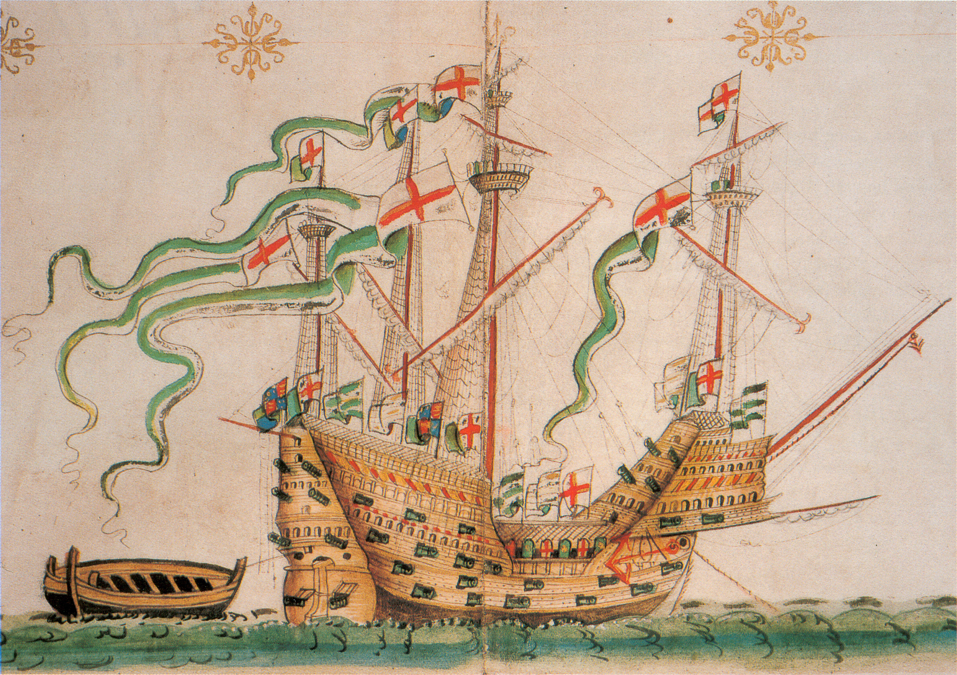 Illustration of the carrack Peter Pomegranate, also known as the Peter.